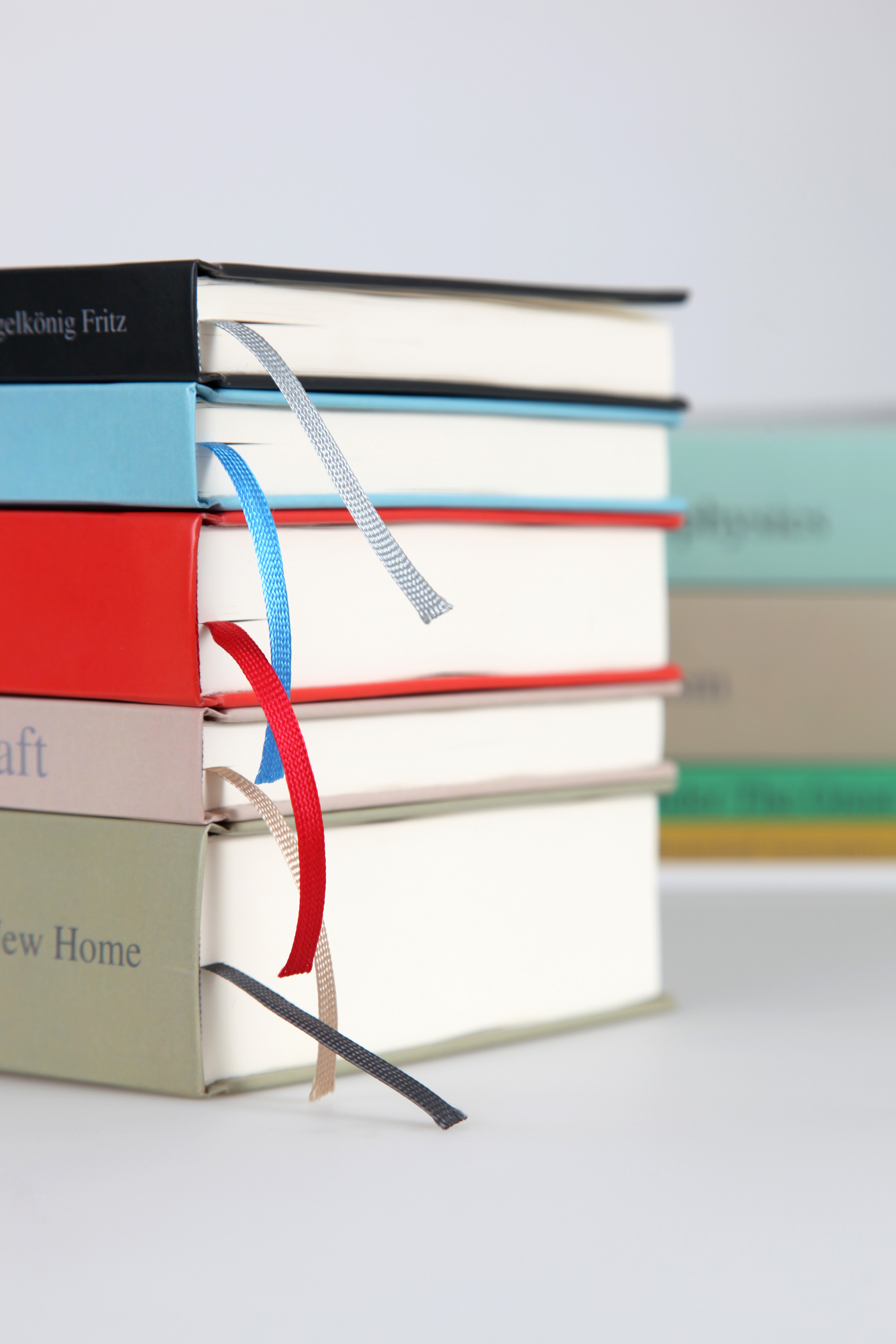 Photos of books made by PediaPress with Wikipedia content.